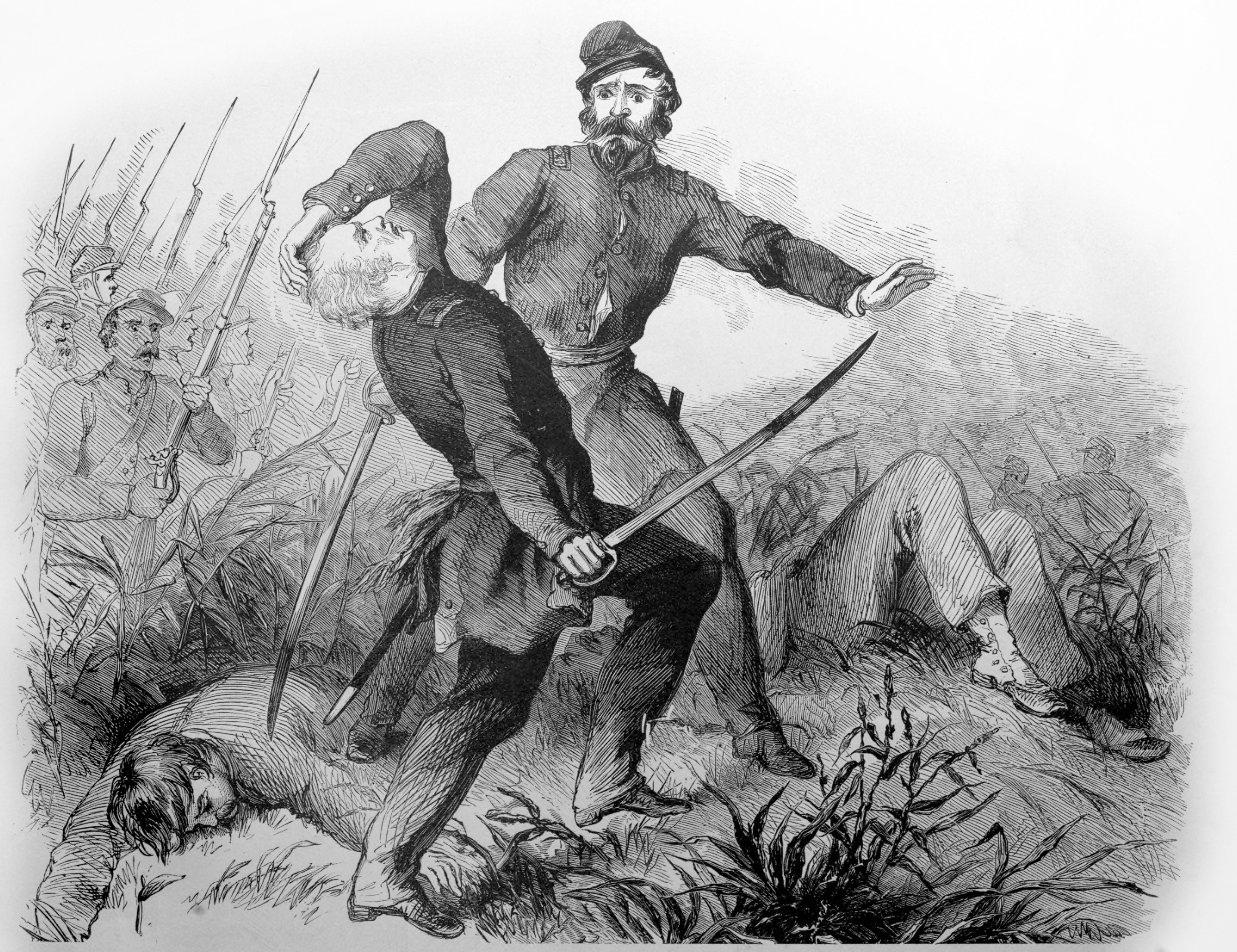 Colonel E. D. Baker, while commanding the First California Volunteers, which formed part of General Stone's brigade at the battle of Ball's Bluff, and who had just before he entered battle been notified of his appointment as brigadier general, was killed while at the head of his command, pierced by bullets in the head, body, arm and side. He died as a soldier would wish to die, amid the shock of battle, by voice and example animating his men to brave deeds. (from Frank Leslie's Illustrated History of the Civil War..., edited by Louis Shepheard Moat, Published by Mrs. Frank Leslie, New York, 1895)